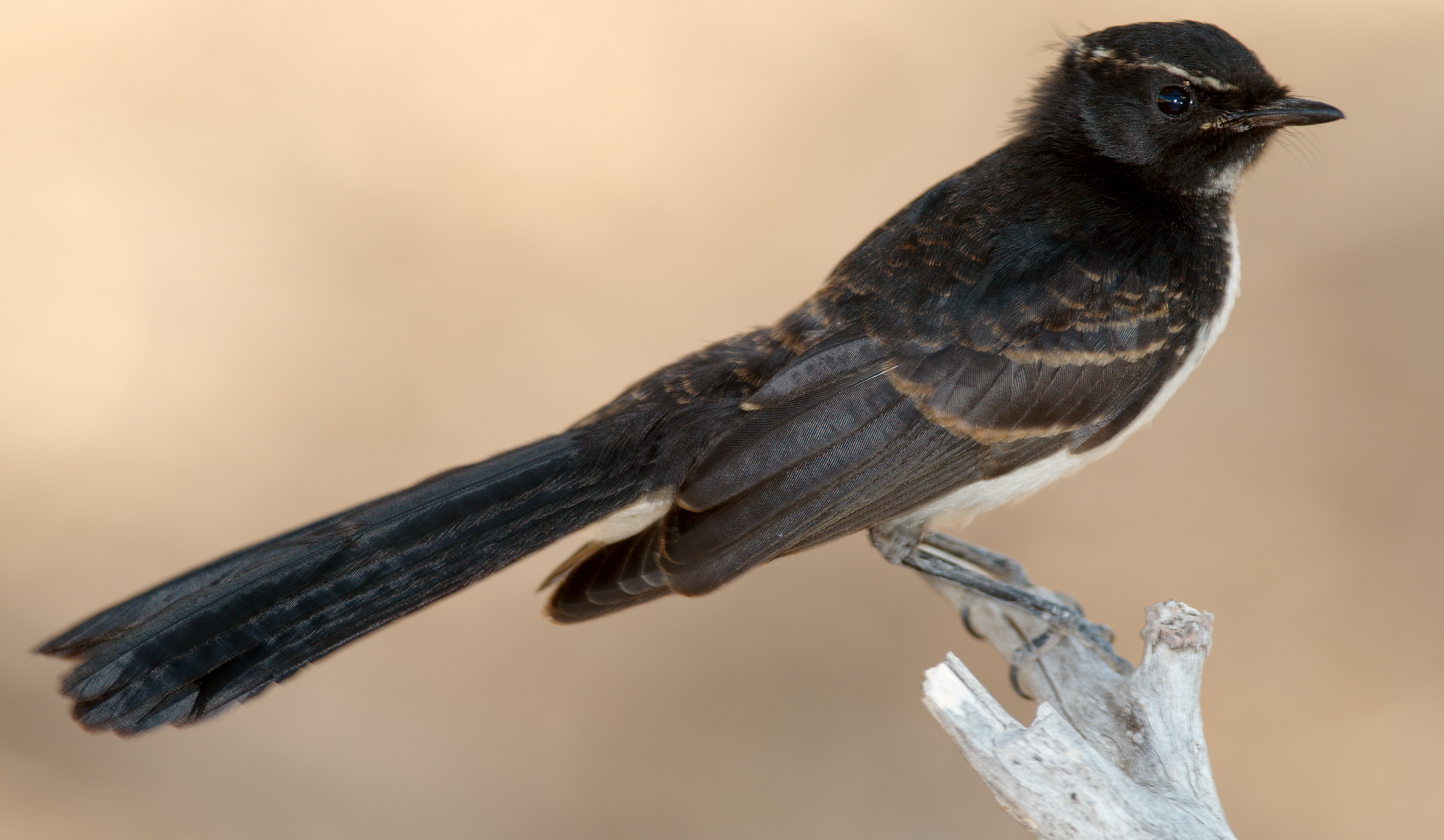 Rhipidura leucophrys - Juvenile Willie Wagtail - Ingle Farm, South Australia